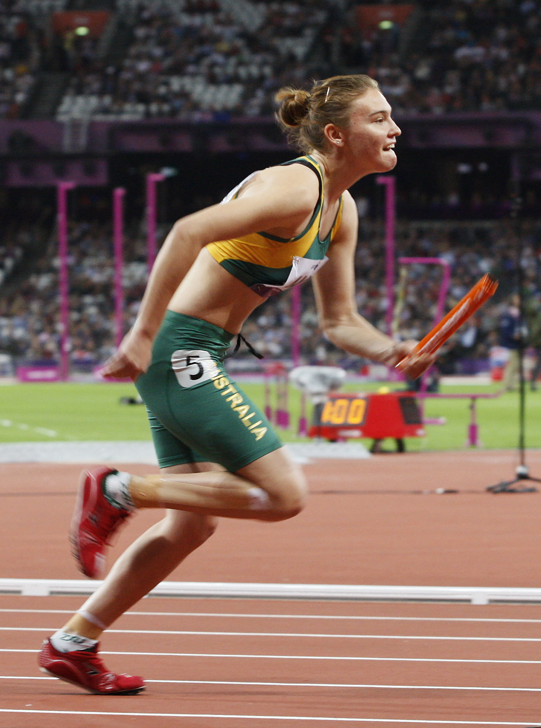 Photograph of Australian Paralympic team member Torita Isaac at the 2012 Summer Paralympic Games in London